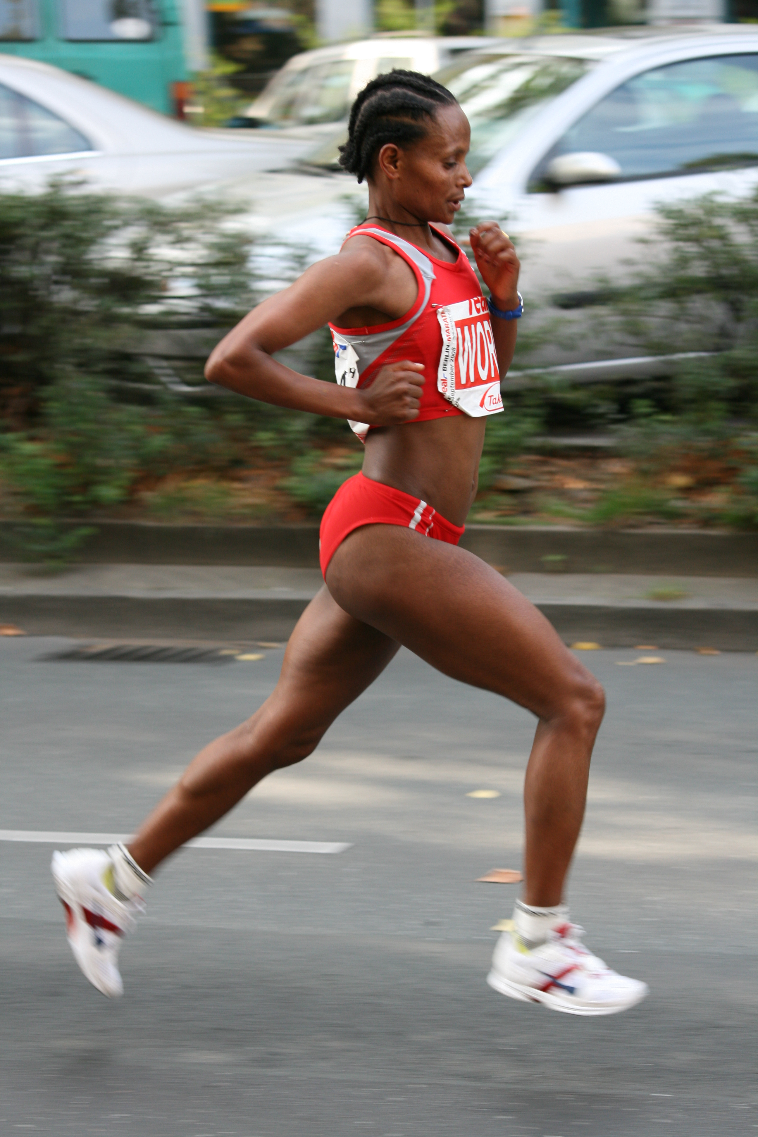 Tsege Worku, Ethiopian long-distance runner, at the Berlin Marathon 2008